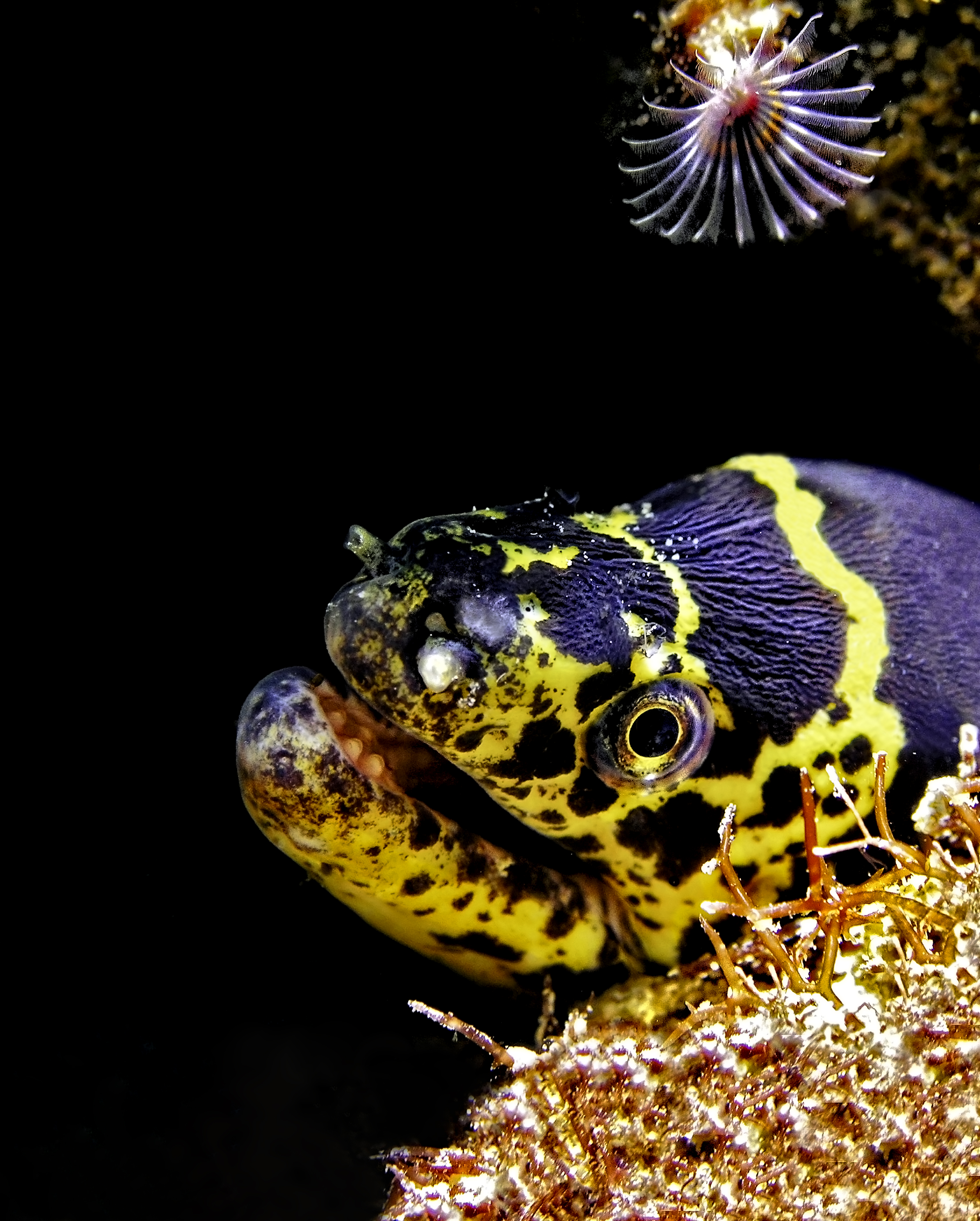 Chain moray eel below a feather duster worm